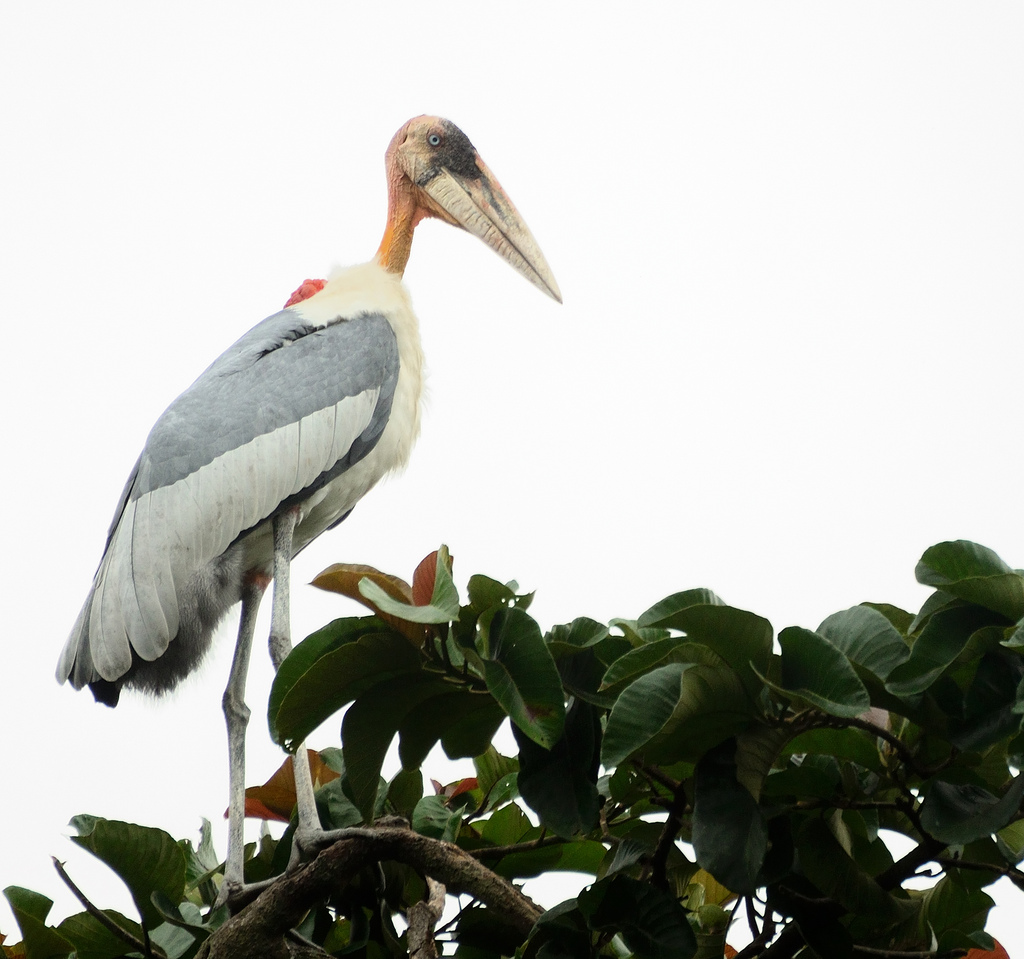 Greater Adjutant stork in breeding plumage, perched on a tree close to its nest.